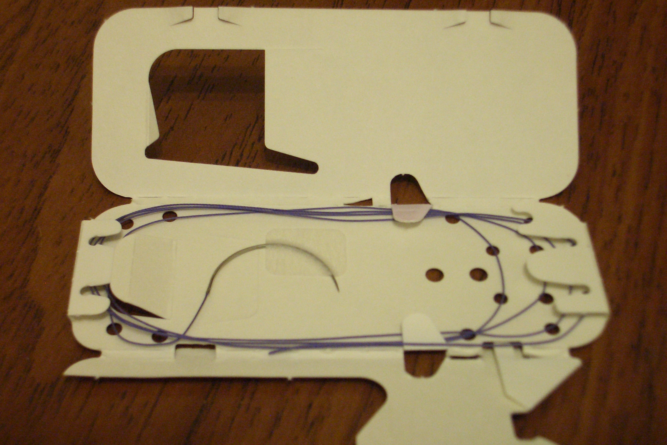 Surgical suture